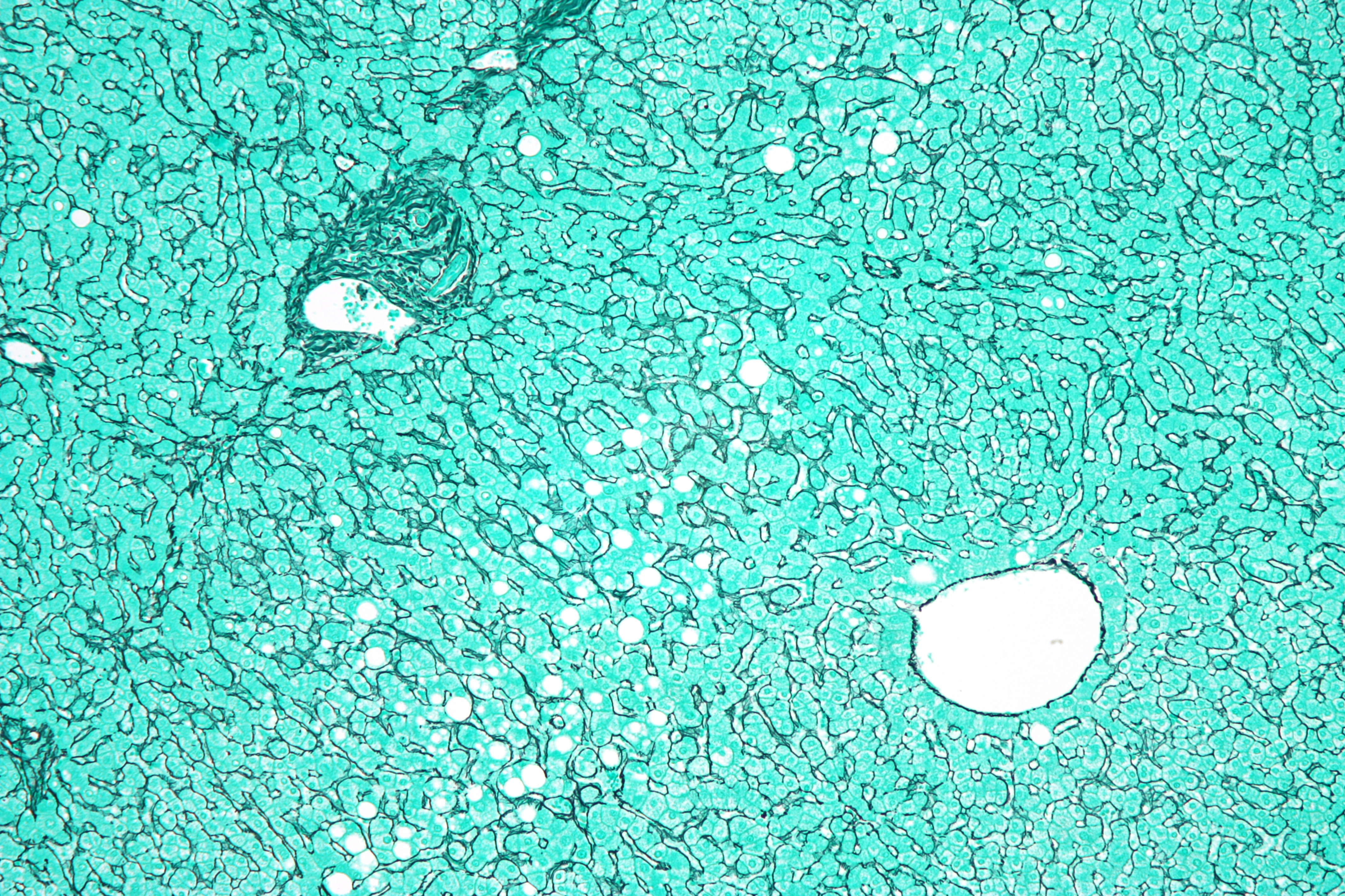 Micrograph of the liver showing a portal tract and a nearby hepatic venule. Reticulin stain. The normal "hepatocyte plate" -- the strands of hepatocytes that characterise the morphology of the liver and are separated by the liver sinusoids -- is one or two cells thick, as shown in the image. If the hepatocyte plate is three or more cells, it is diagnostic of hepatocellular carcinoma, the most common form of cancer that arises in the liver.